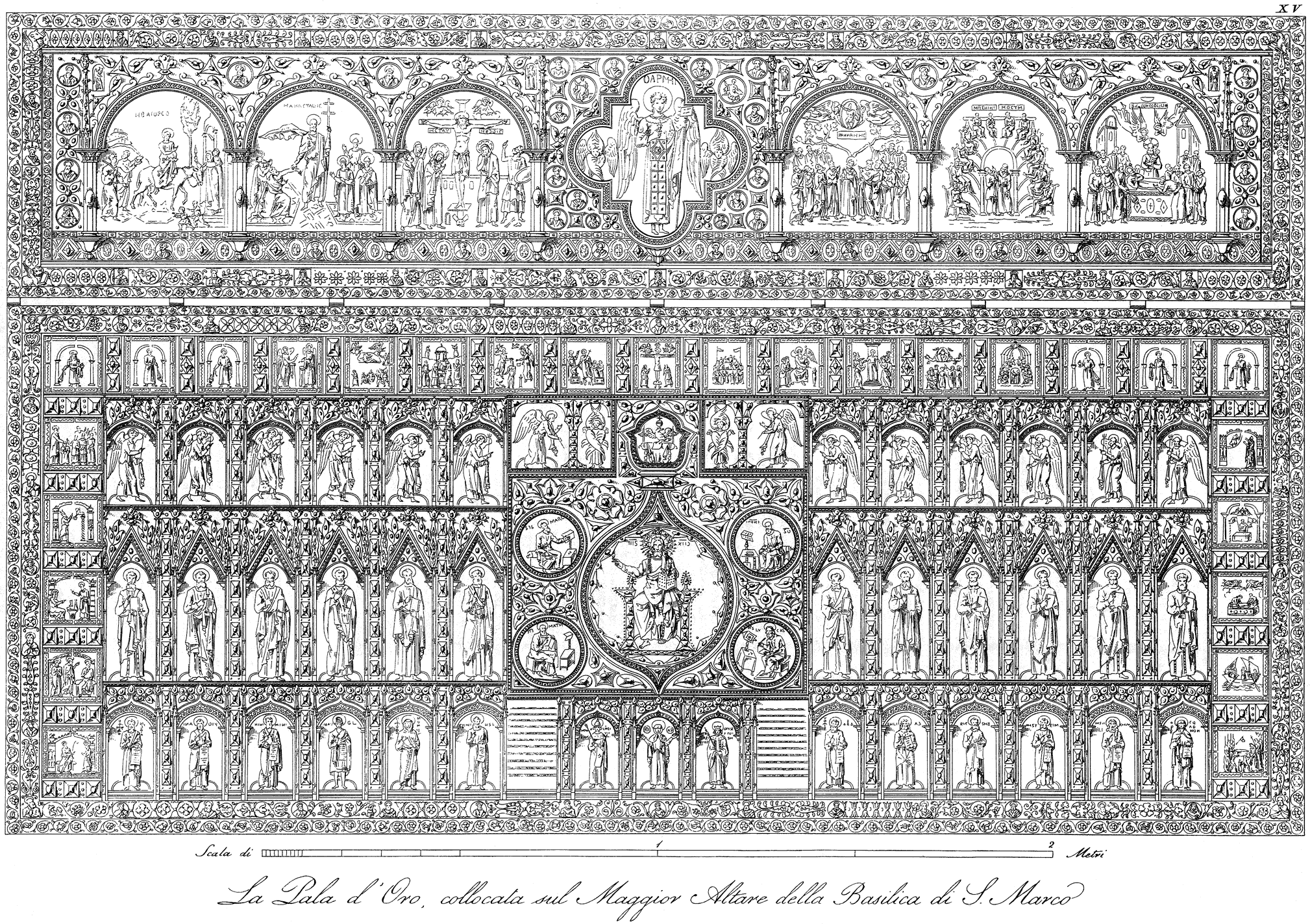 The so-called Pala d’Oro, a golden antepedium situated now at the back side of the main altar of the Basilica di San Marco in Venezia (i. e. Venice, Venedig etc.) in Italy. Taking a good photograph of this subtle work is very hard; this drawing provides a detailed image.